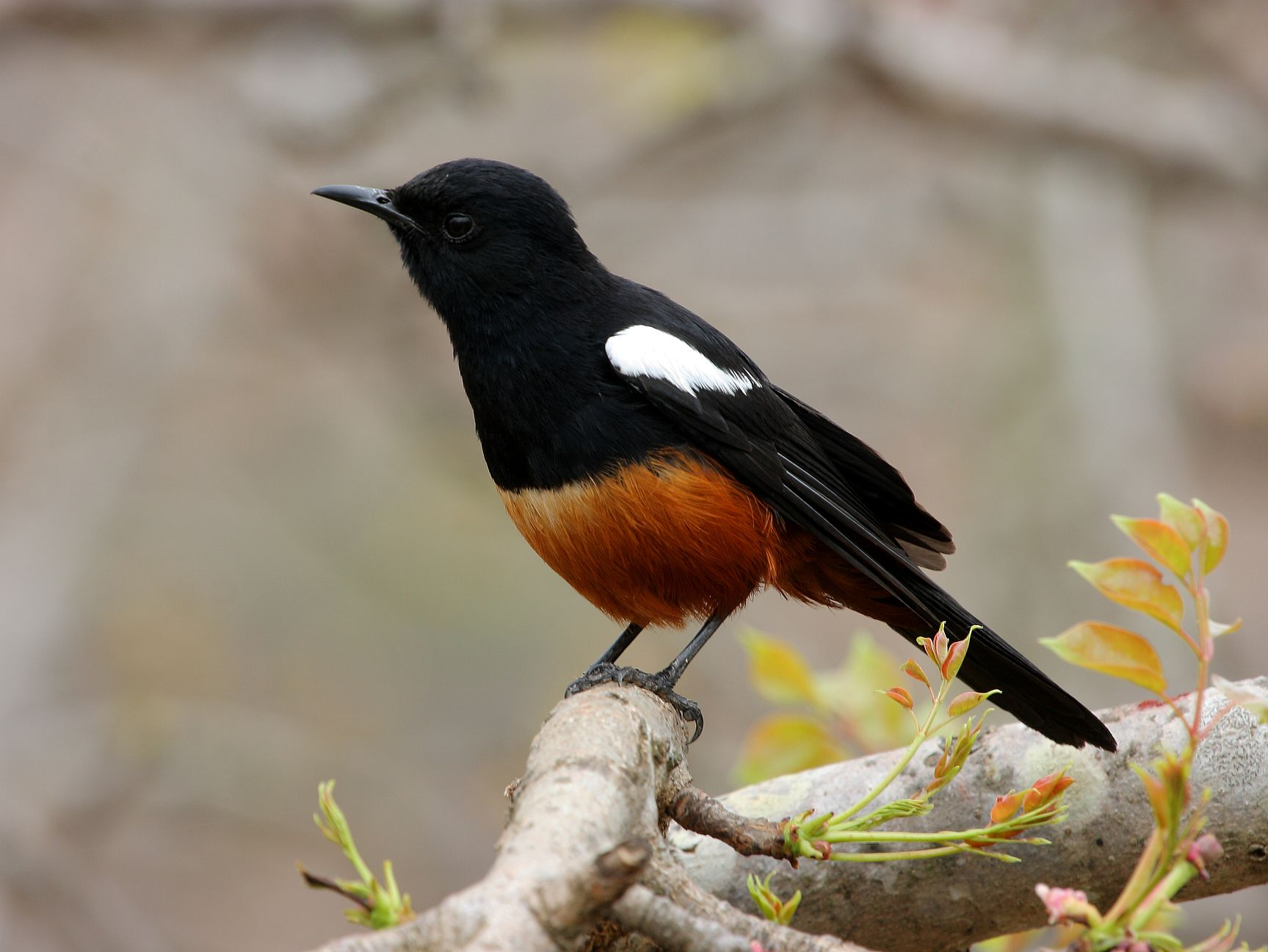 Male mocking cliff chat Thamnolaea cinnamomeiventris; Mlondozi picnic site, Kruger National Park, South Africa.